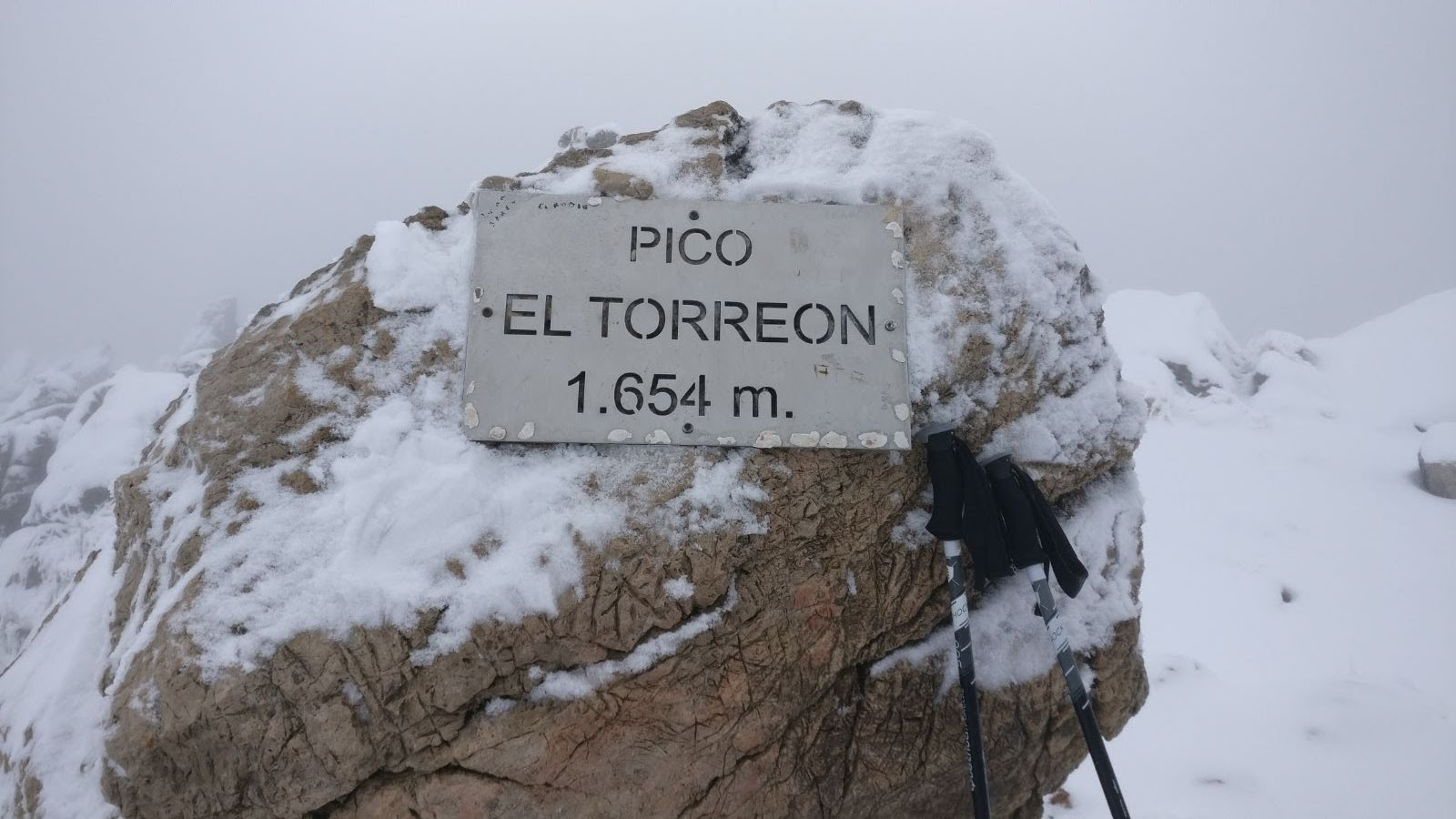 Cima del pico Torreón en una nevada ocurrida en Enero de 2018.